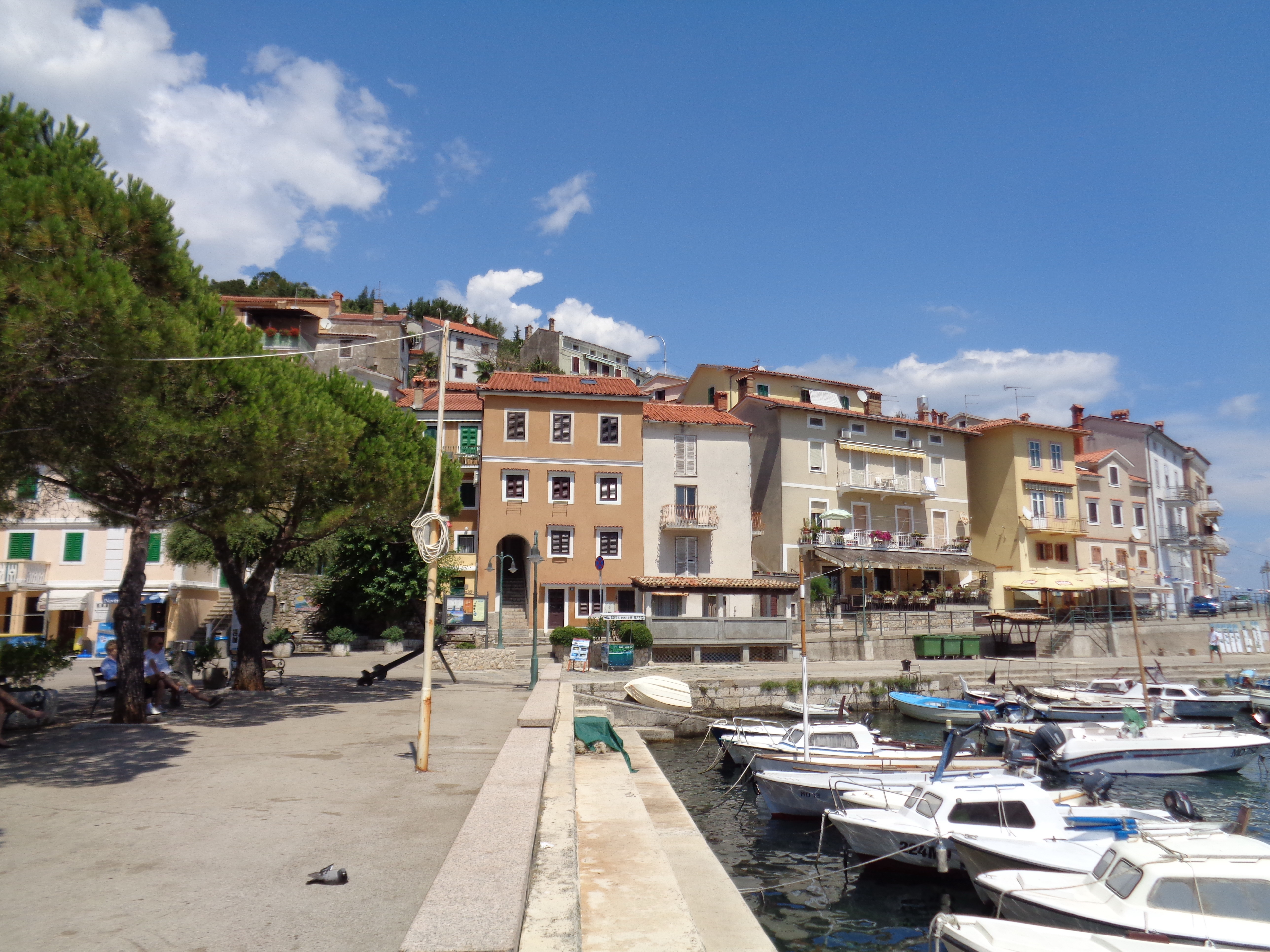 Mošćenička Draga municipality, Primorje-Gorski Kotar County, Croatia - waterfront